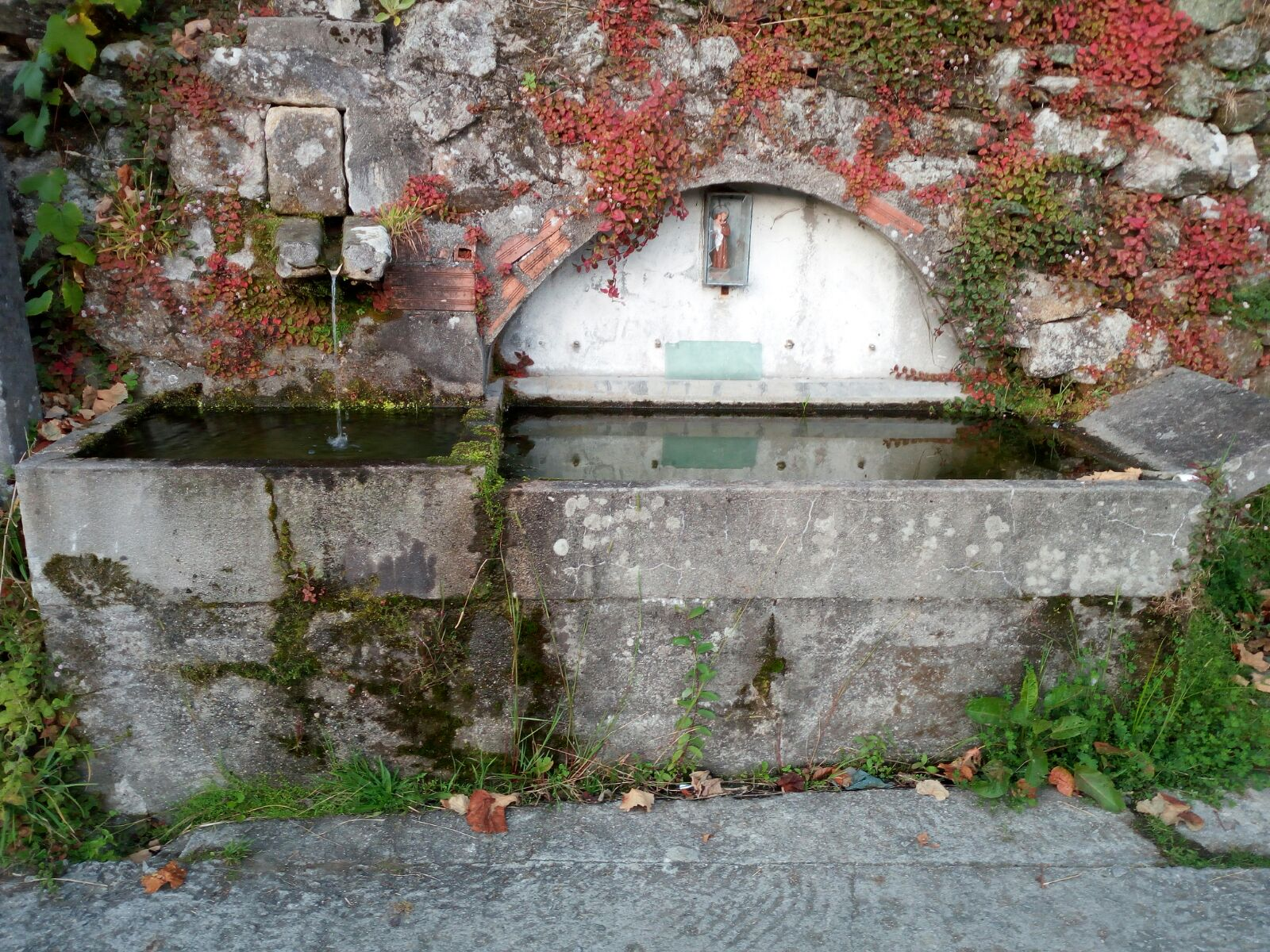 Patrimonio de Rois